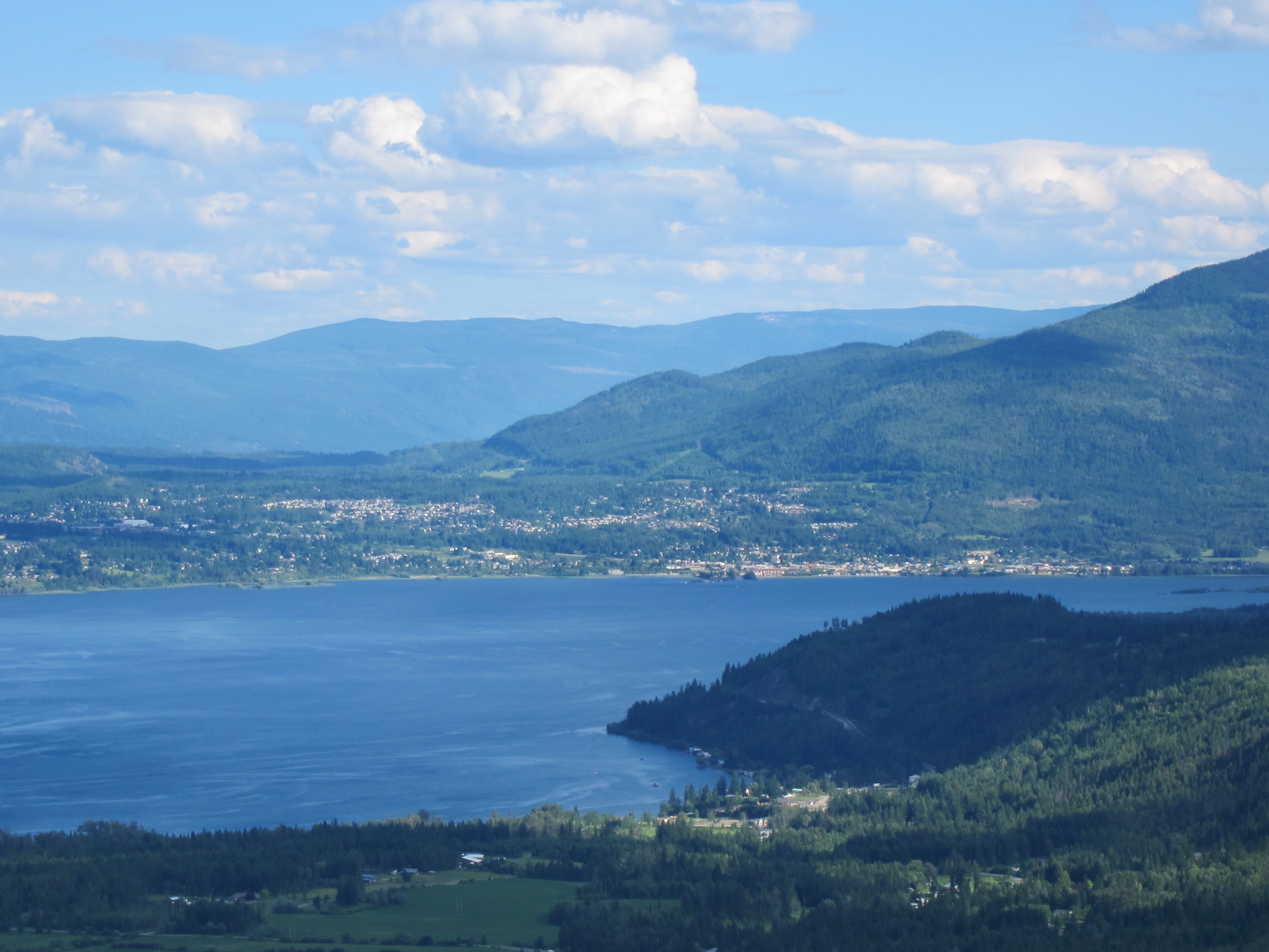 The town of Salmon Arm, and the Salmon Arm of Shuswap Lake in British Columbia, Canada. View from Tappen Bluffs, to the west.